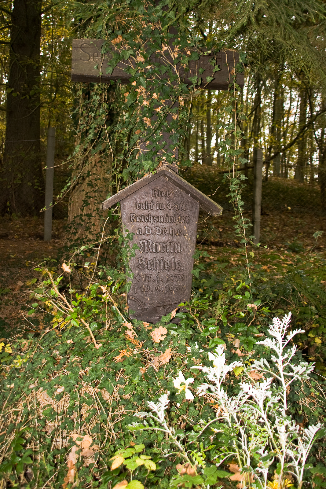 gravestone of the grave of Martin Schiele